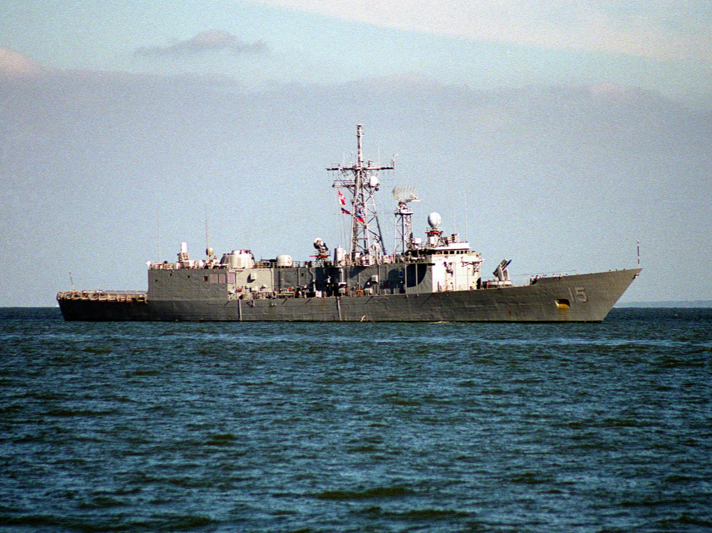 The U.S. Navy Reserve guided missile frigate USS Estocin (FFG-15) entering the Hampton Roadstead upon returning to port following Hurricane Felix moving out of the area off to the east.